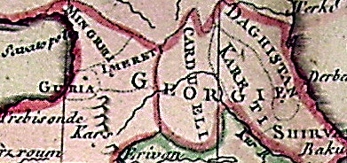 Kartli and other Georgian states in 18th century. Detail from a map of Jean Clouet, 1767.